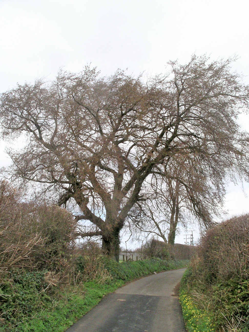 European White Elm Ulmus laevis tree at Llandegfan, Anglesey, Wales